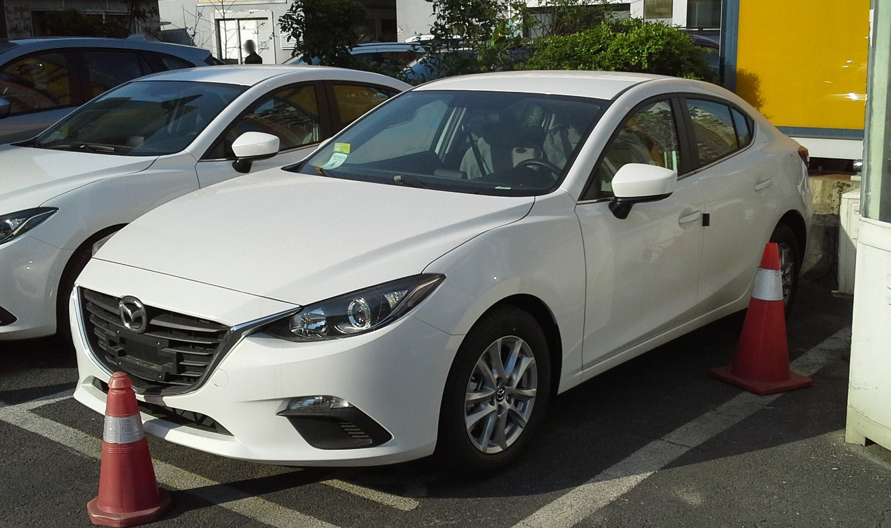 Mazda 3 Axela sedan photographed in Shanghai, China.